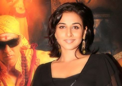 Vidya Balan at a promotional event of Bhool Bhualiyaa.